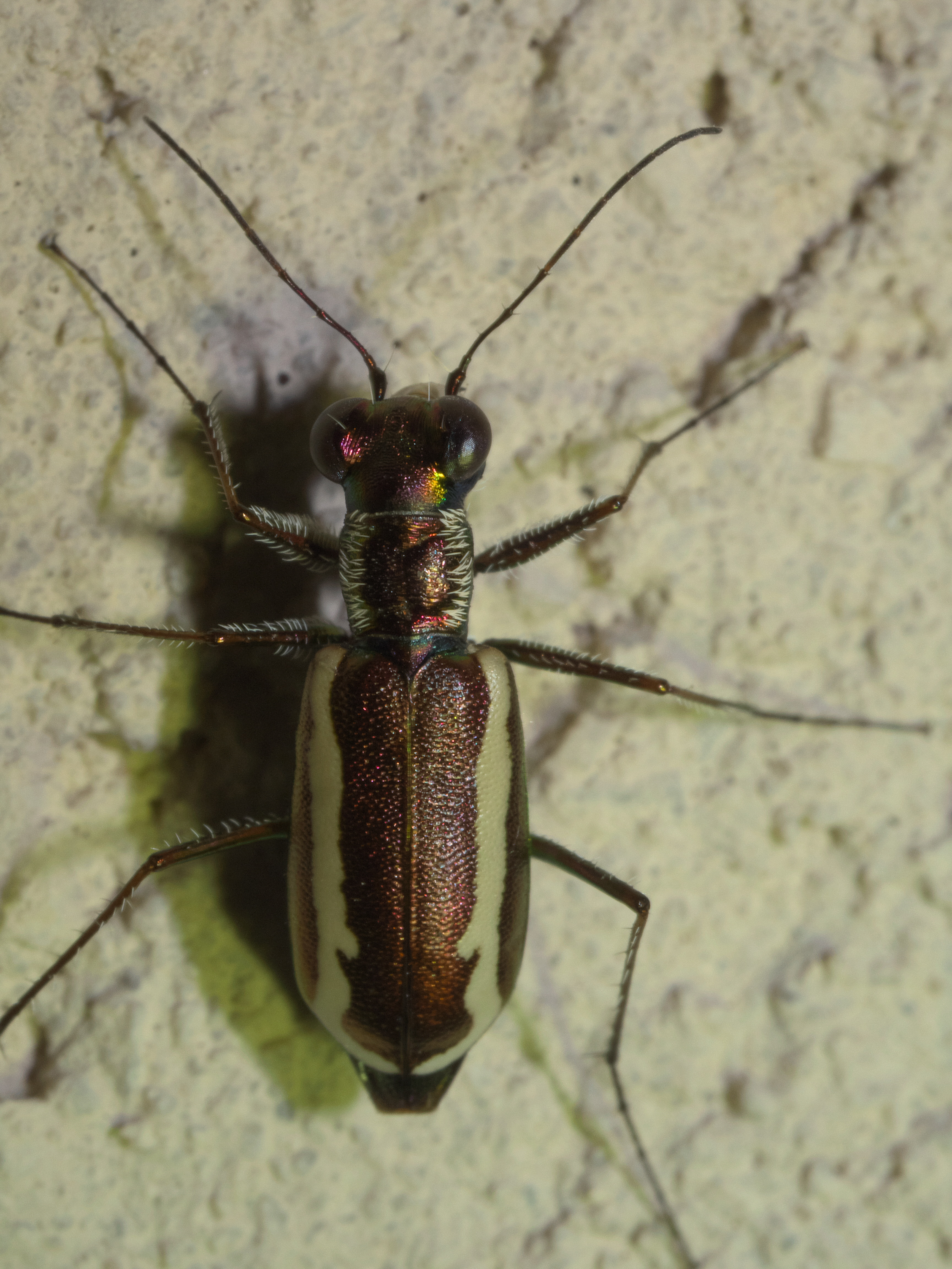 Cylindera lemniscata, White-striped Tiger Beetle, Size: 9.6 mm, ID Confidence: 88